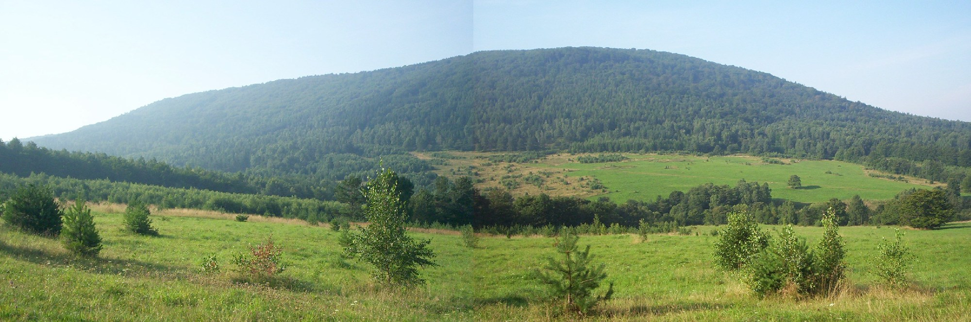 Lackowa (997m) - the highest mountain of Polish part of Beskid Niski (part of Carpathian Mountains). View from Bieliczna, Poland.